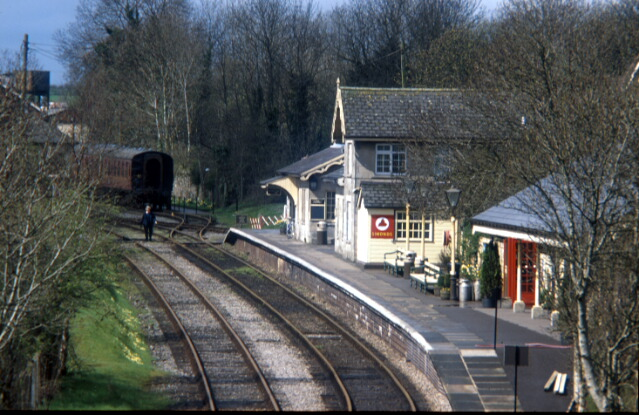 Cranmore railway station